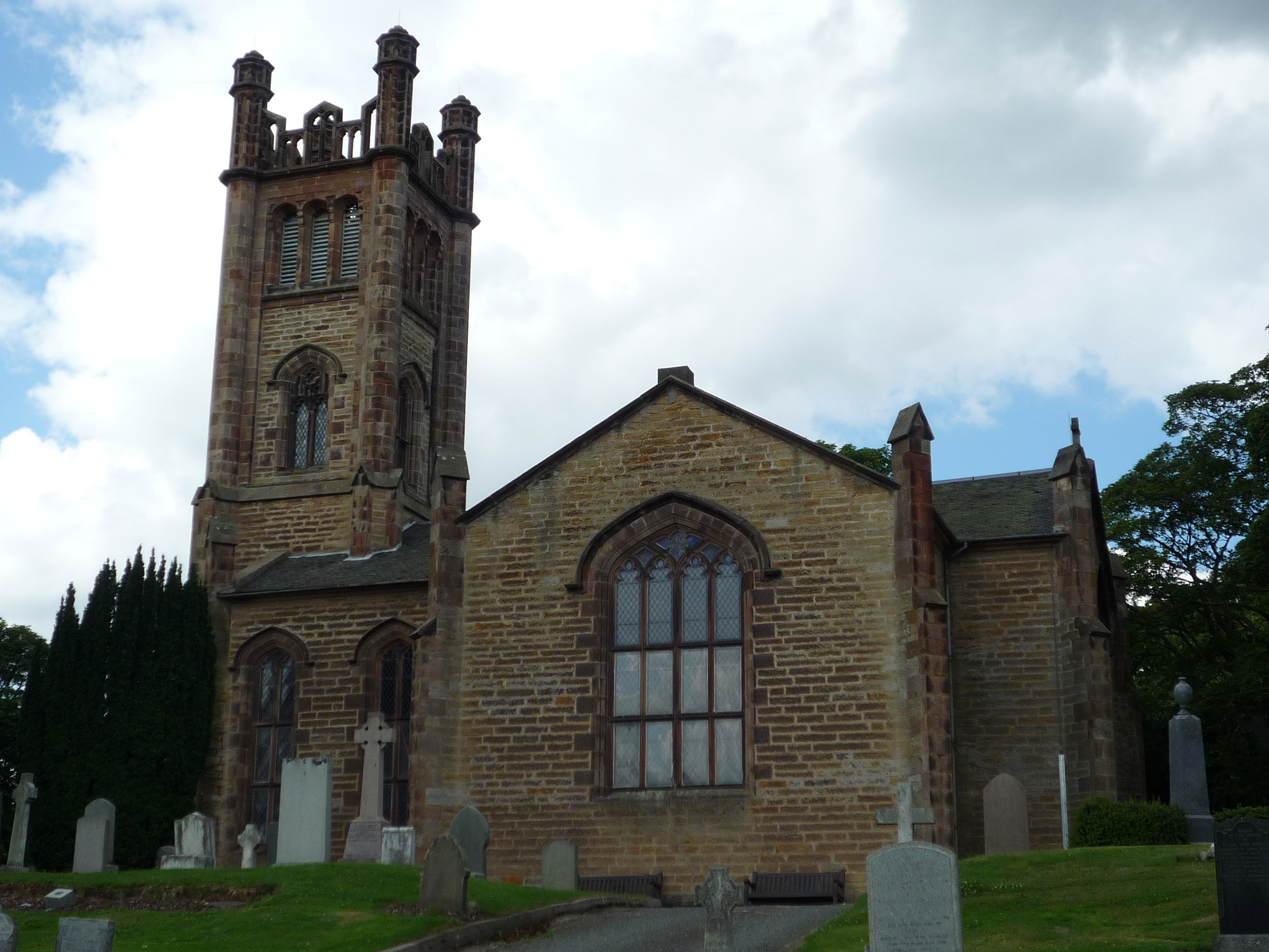 Cockpen and Carrington Parish Church near Bonnyrigg, Midlothian, Scotland. More images.